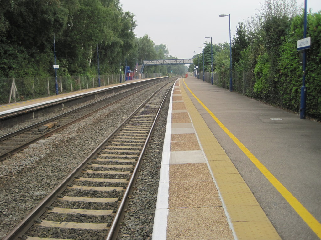 Opened in 1854 as 'Kingswood' by the Great Western Railway on the line from Warwick to Birmingham Snow Hill, this station acquired its current name in 1902. View north towards Dorridge and Birmingham..